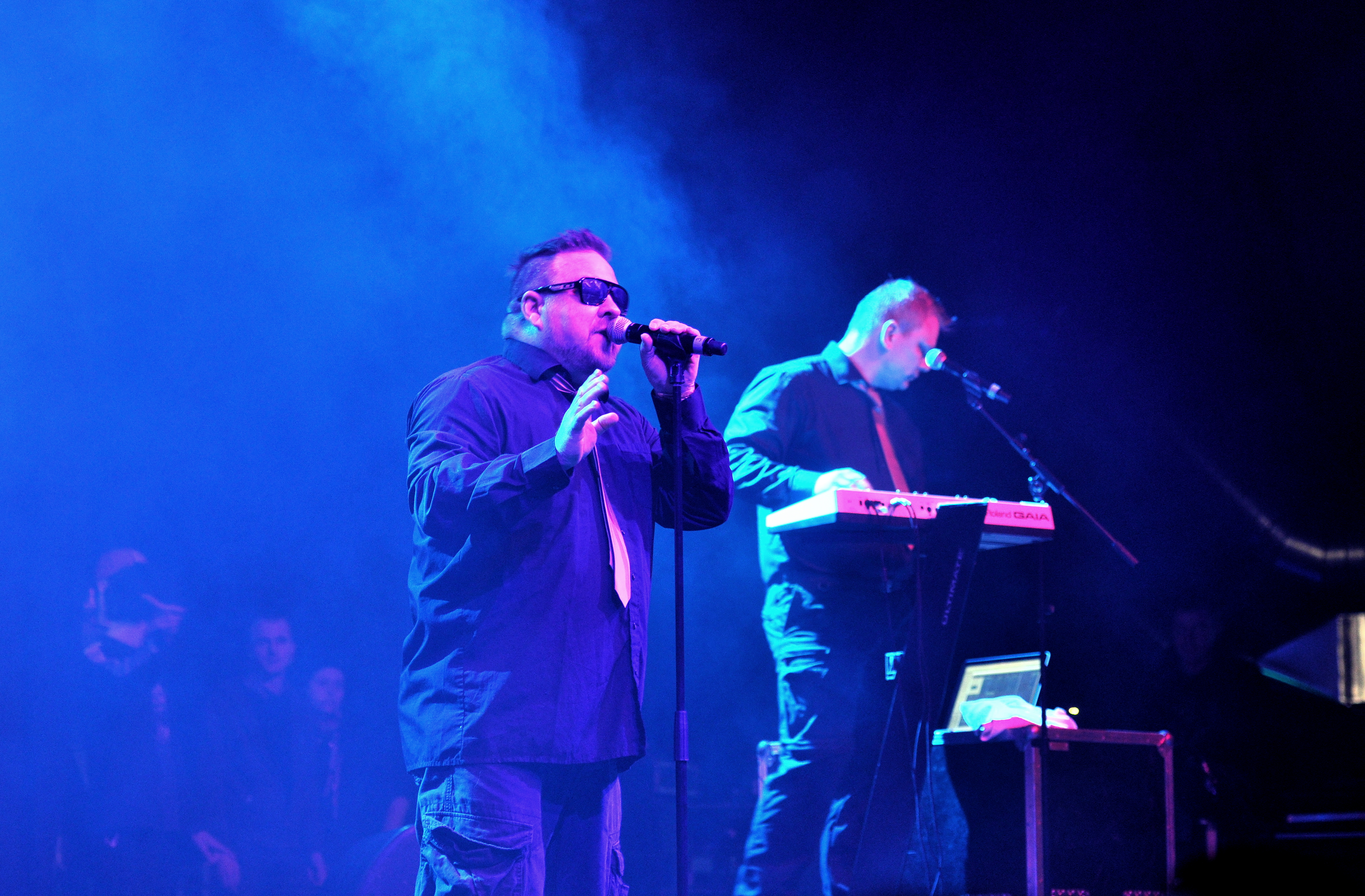 The Band Autodafeh from Sweden at e-tropolis 2013, Berlin